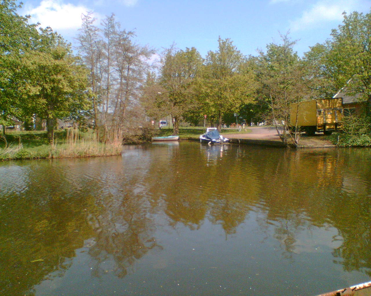 River Oude Rijn near Woerden (Kruipin)